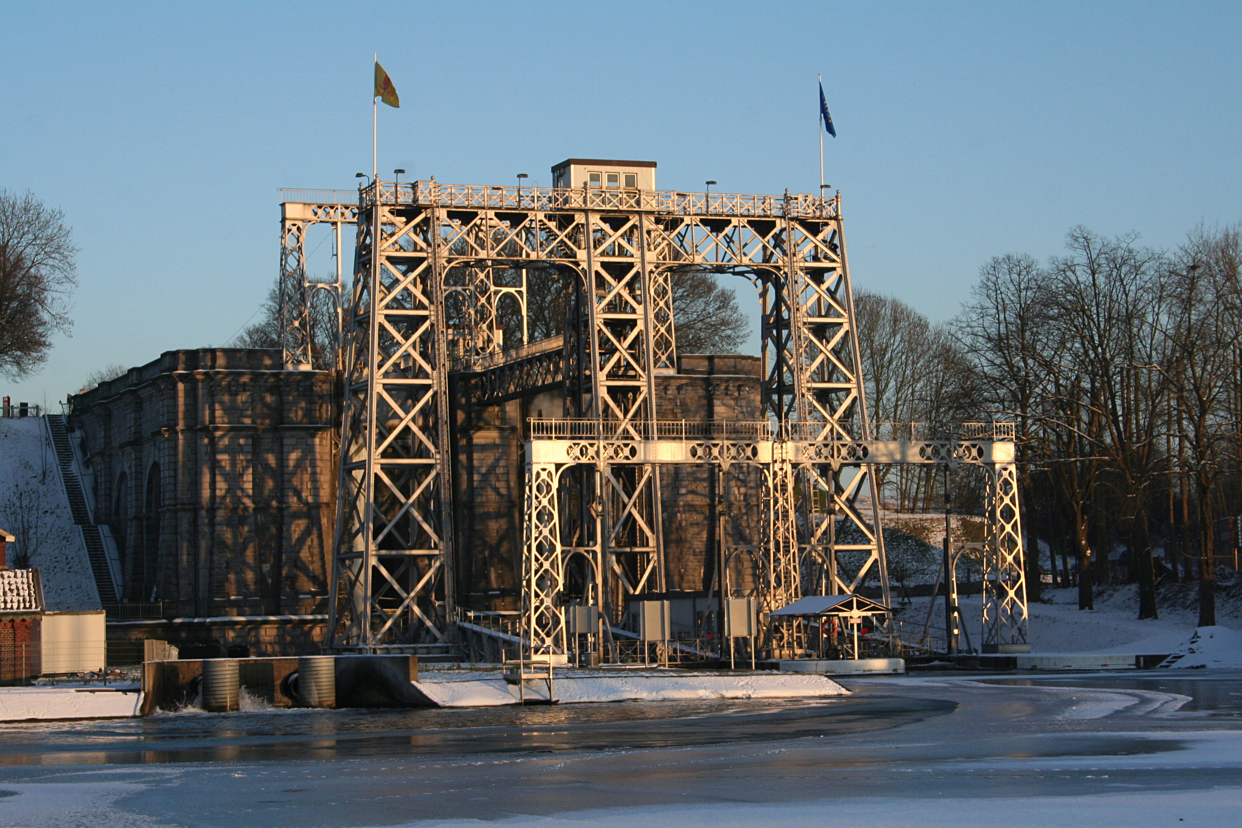 Thieu (Belgium), the old hydraulic ships elevator number 4.